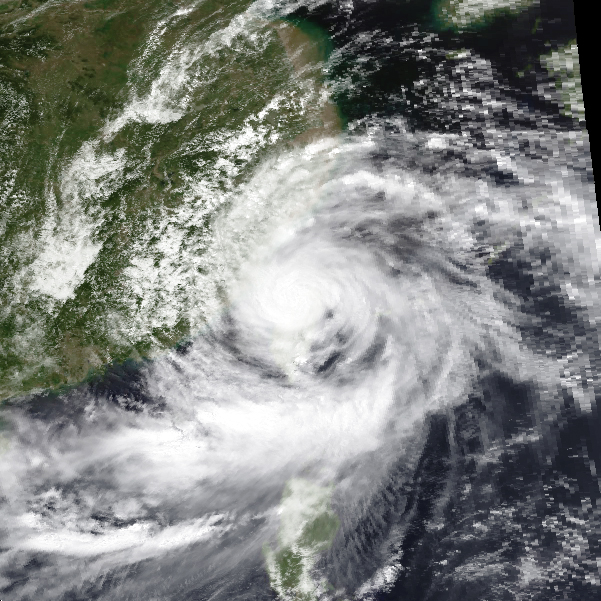 Typhoon Yancy on August 19, 1990